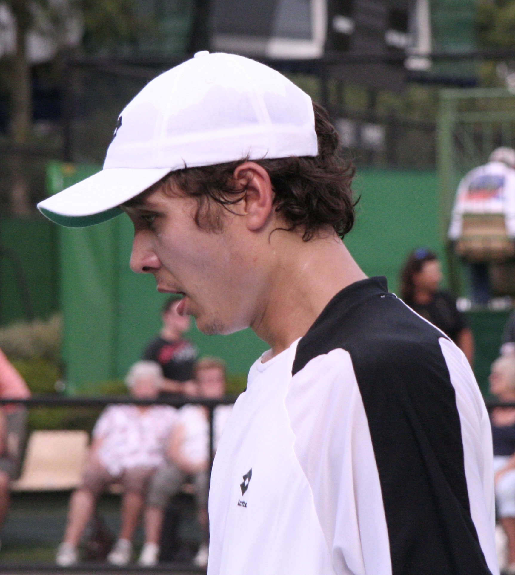 Igor Kunitsyn at the 2007 Australian Open, during his first-round mens doubles match, partnering Igor Andreev.